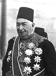 Ahmad Ziwar Pasha (1864-1945), prime minister of Egypt (1924-1926).